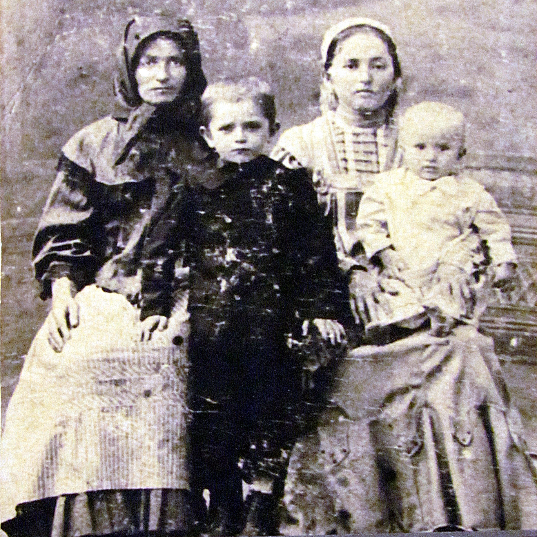 Olimpijada Pupin (left), mother of Mihajlo Pupin